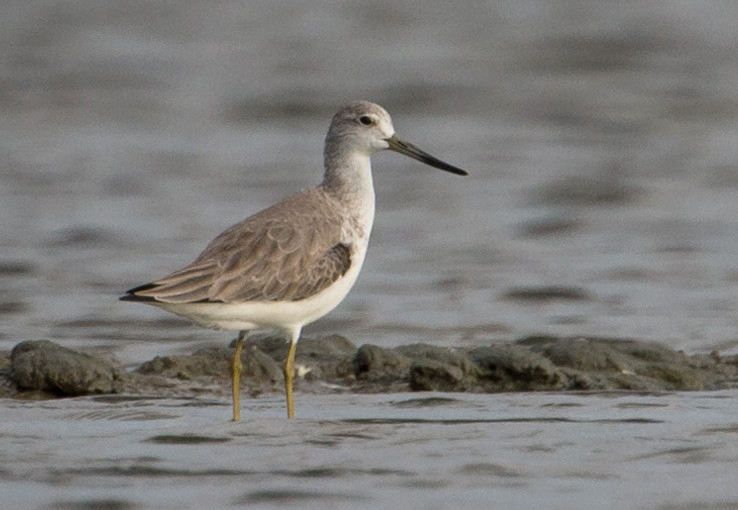 Nordmann's Greenshank Tringa guttifer at Laem Pak Bia, Phetchaburi, ThailandBahasa Indonesia: Trinil Nordmann(Tringa guttifer) at Laem Pak Bia, Phetchaburi, Thailand